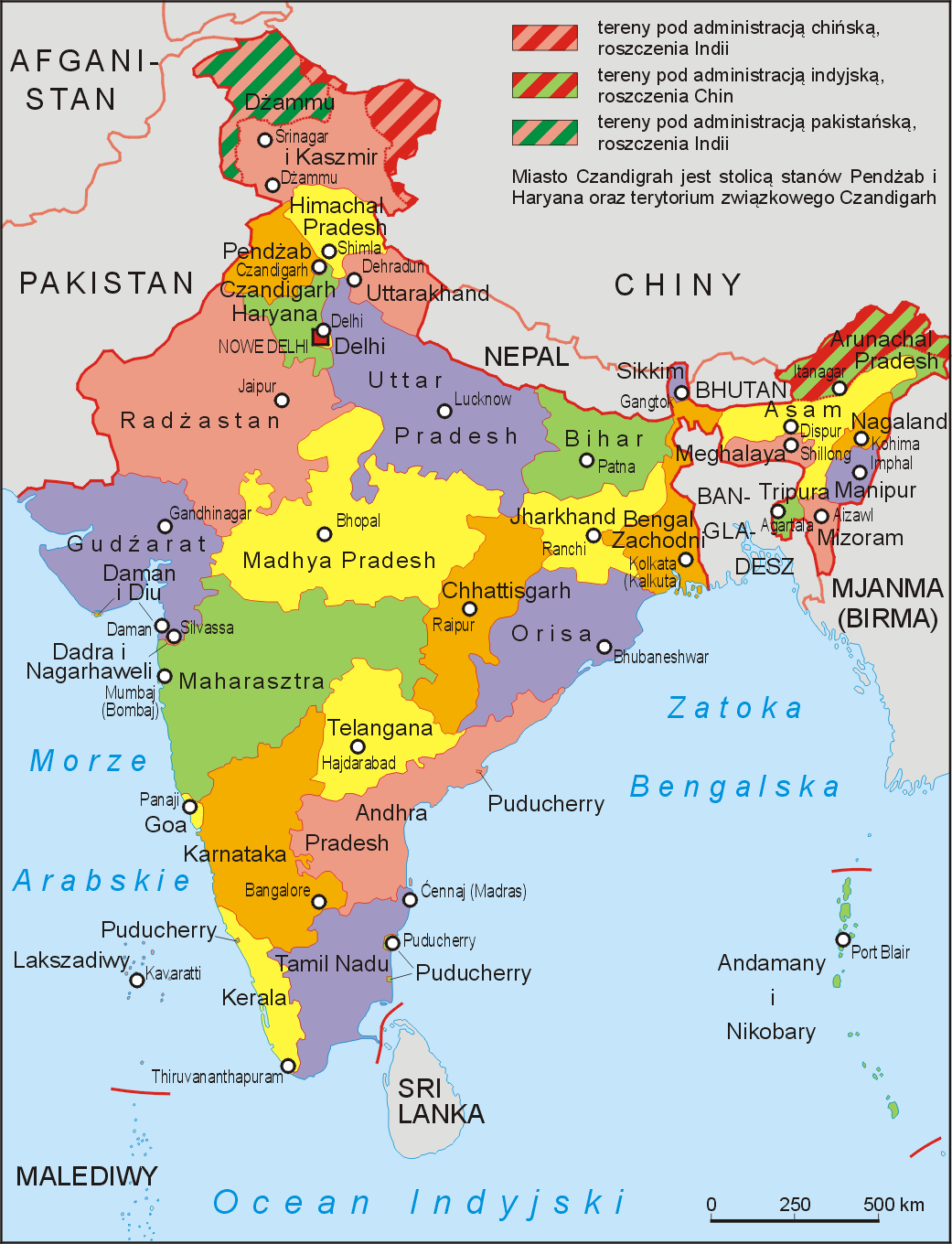 Administrative division of India as on 2014, in Polish